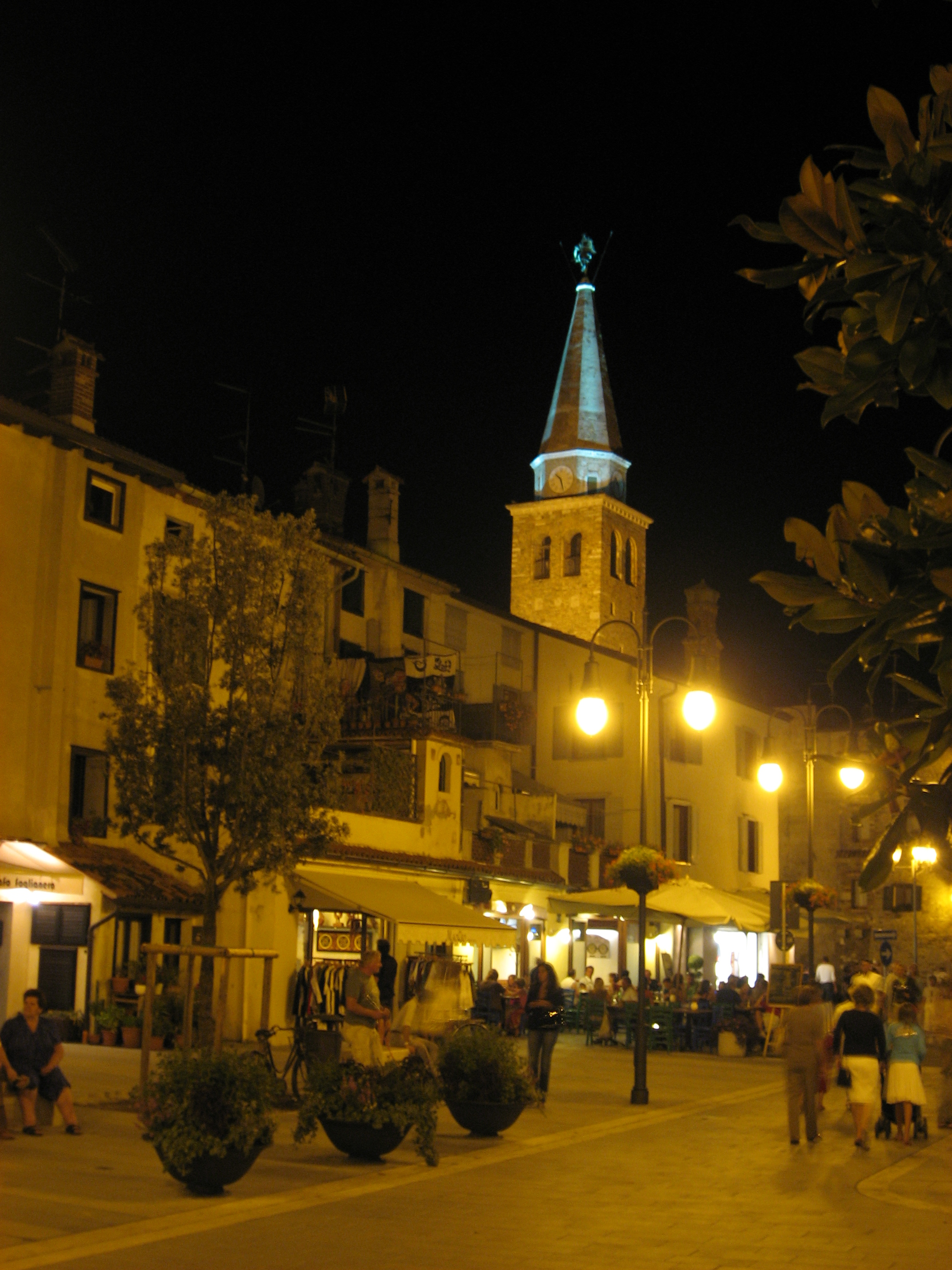 Old town, Grado (GO) Italy, august 2008